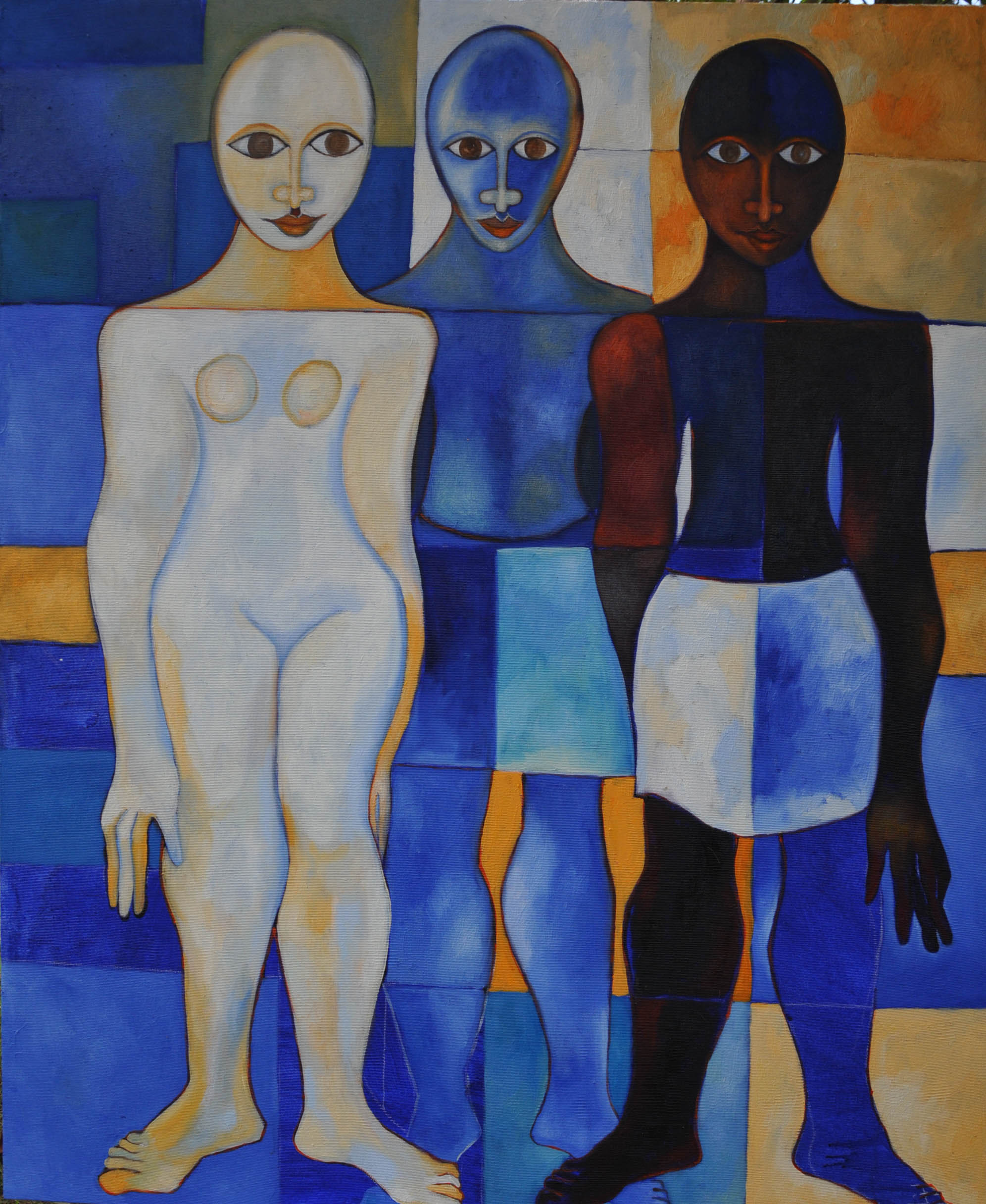 'Togetherness' painted in 2015, oil on canvas.